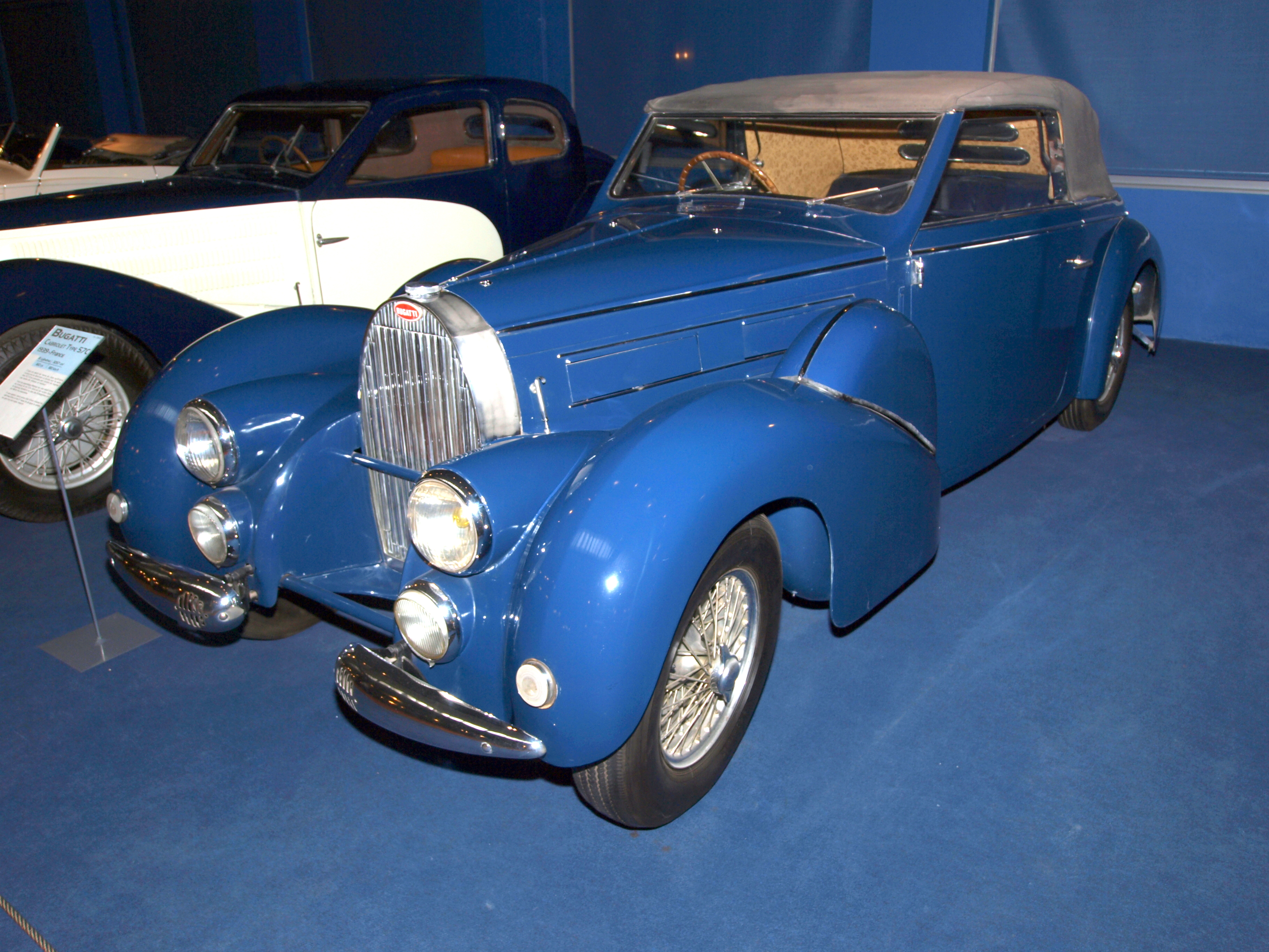 Photographed at the Cité de l’Automobile, France. OLYMPUS DIGITAL CAMERA